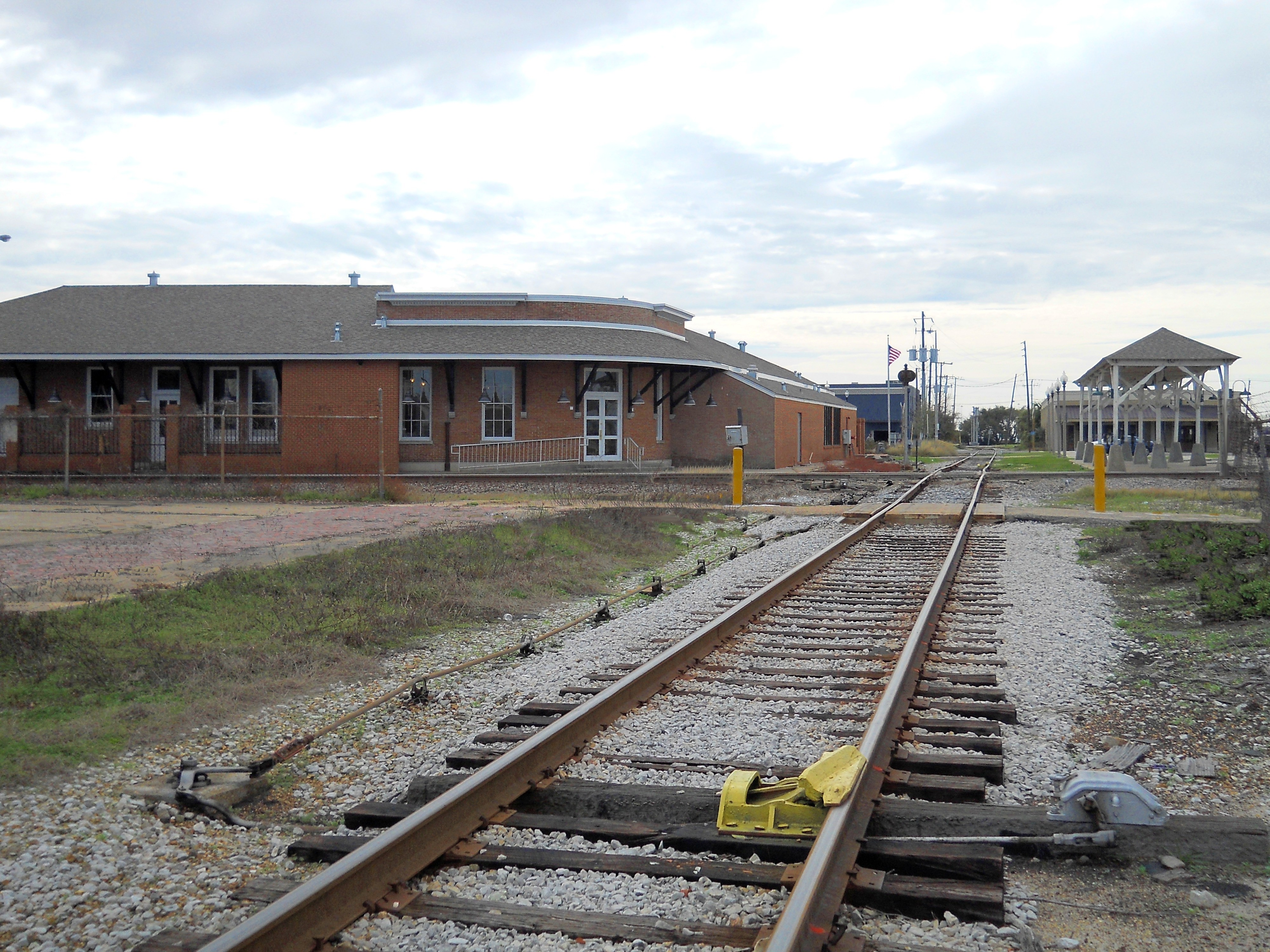 Railroad depot (Union Station) at Gulfport, Harrison County, Mississippi, USA. Depot is at the intersection of Kansas City Southern Railroad and CSX Railroad